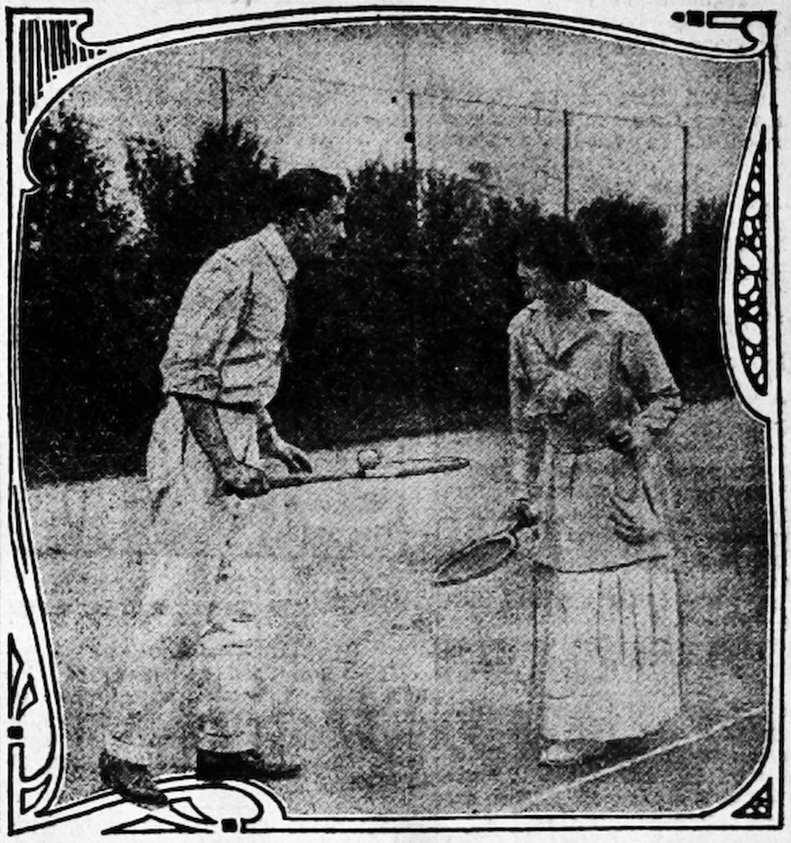 Newspaper publicity image for Her Great Match